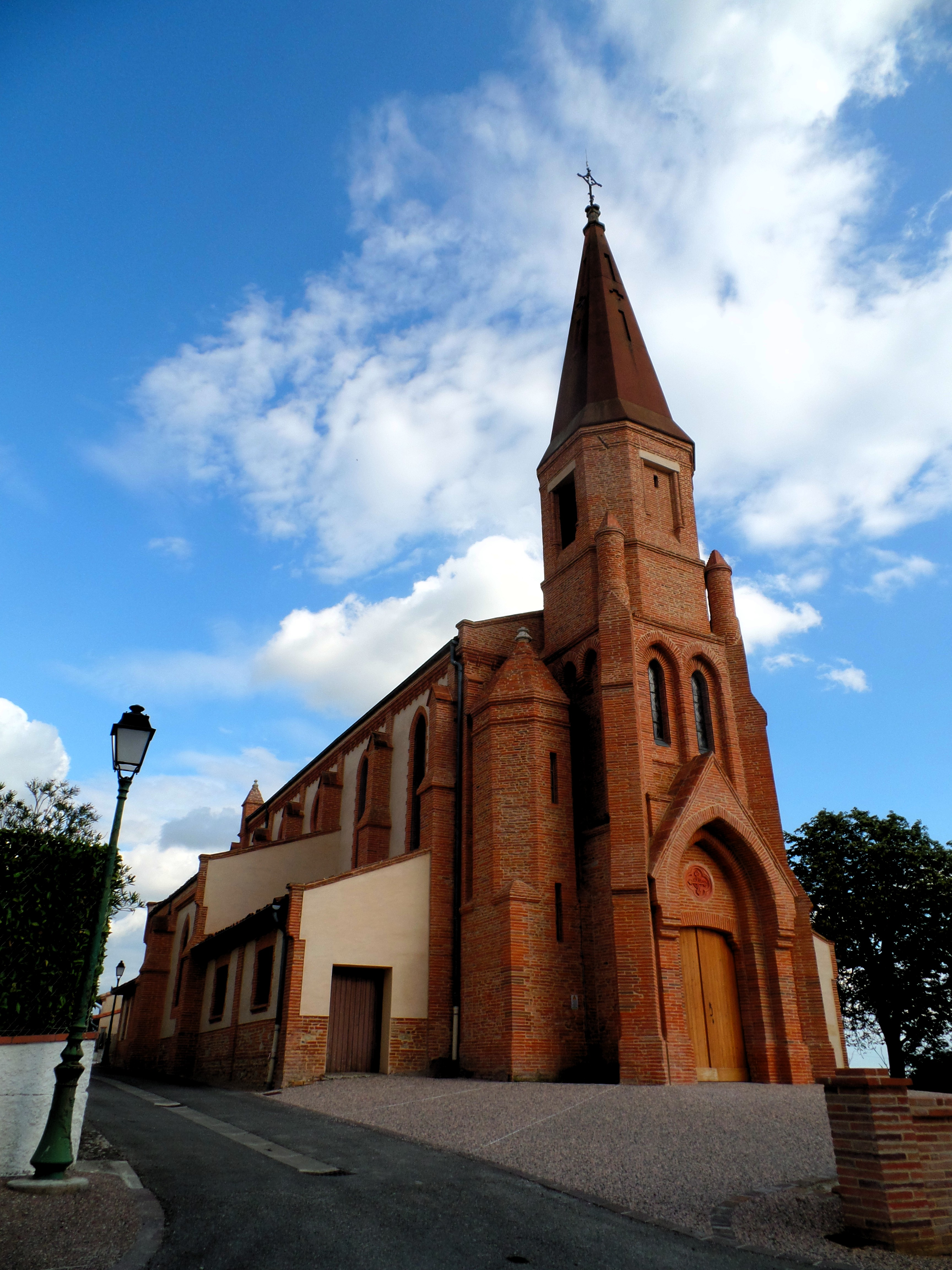 St Jean Baptiste (St Jean Lherm)